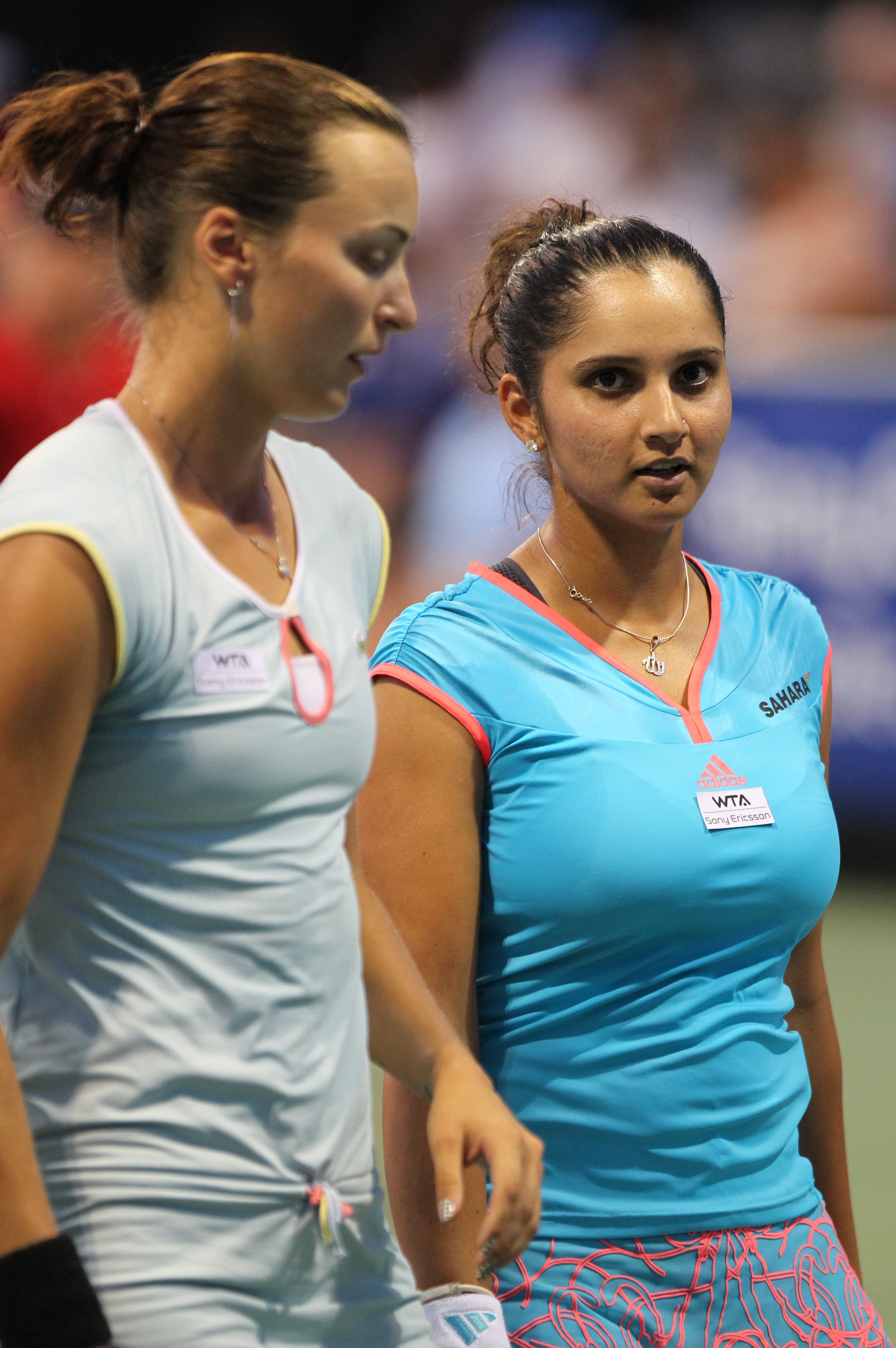 Sania Mirza with her co-player Yaroslava Shvedova at Citi Open Tennis Finals July 31, 2011